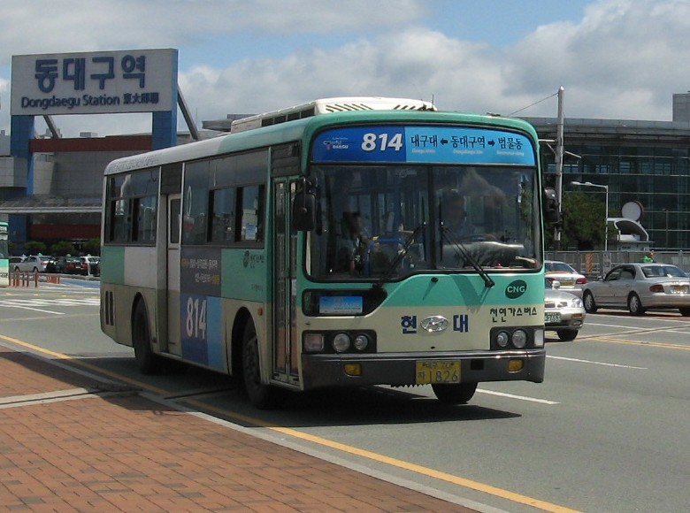 taken in Daegu city, at 24 August 2008.